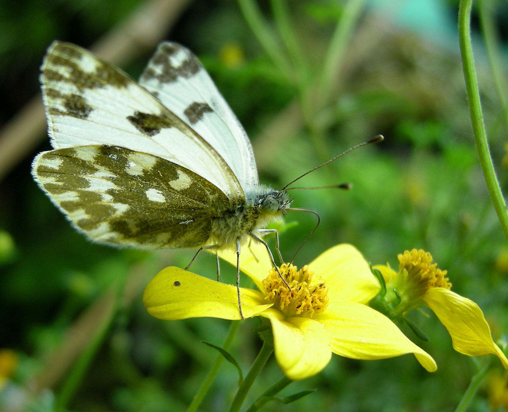 Pontia daplidice (Bath white).